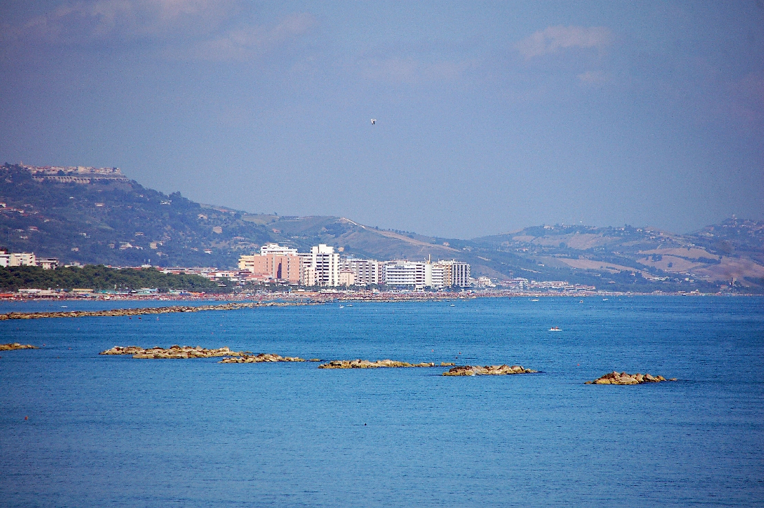 Montesilvano